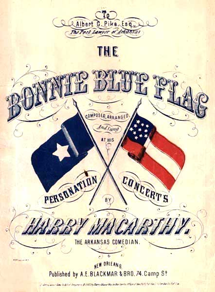 Cover of sheet music for "The Bonnie Blue Flag" words by Harry Macarthy, New Orleans: A.E. Blackmar & Bro., 1861 (color cover image from the Library of Congress)